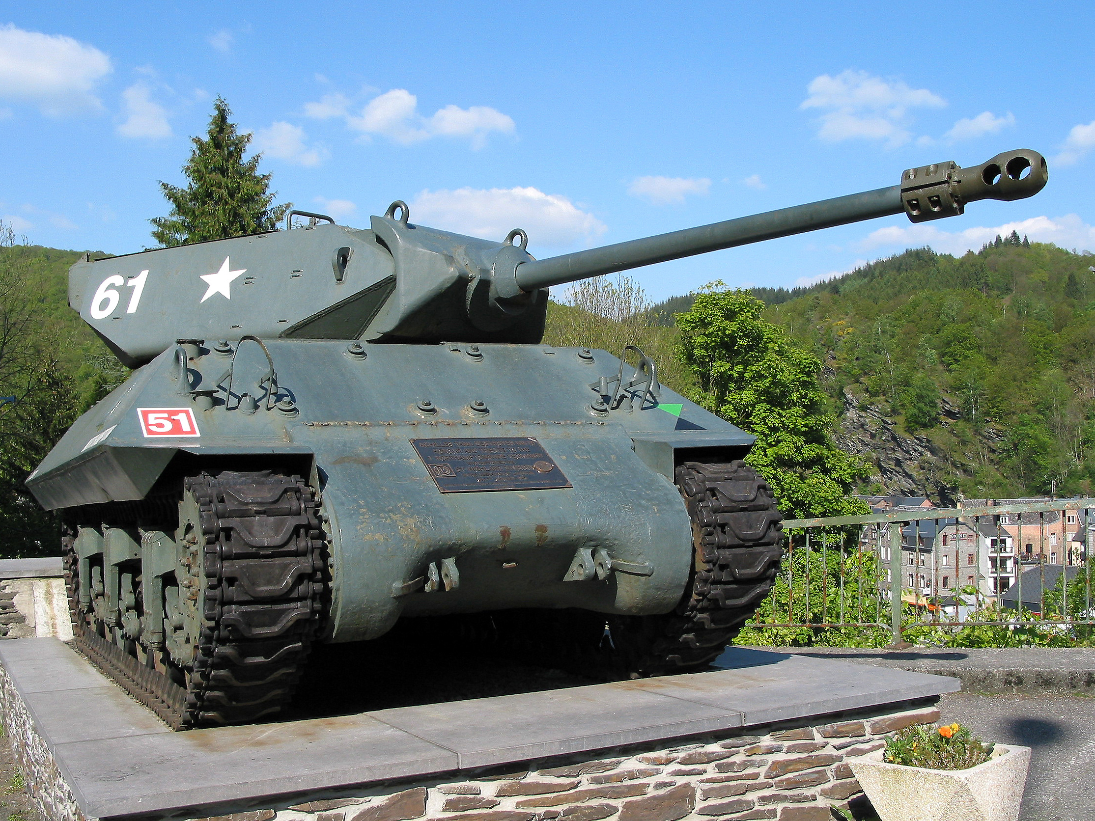 First tank destroyer type 17pdr SP Achilles of the Yeomanry Regiment entered the town of La Roche-en-Ardenne in December 1944.